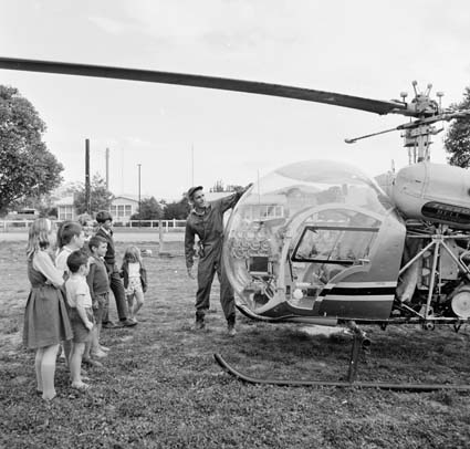 Bell 47G Swifts Creek - 1966